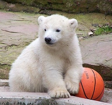 Polar bear Flocke in the Aquapark of Tiergarten Nürnberg, Nuremberg, Germany